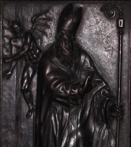 Dacius (bishop of Milan) - wooden statue in the Choir (1567-1614) of the Cathedral of Milan